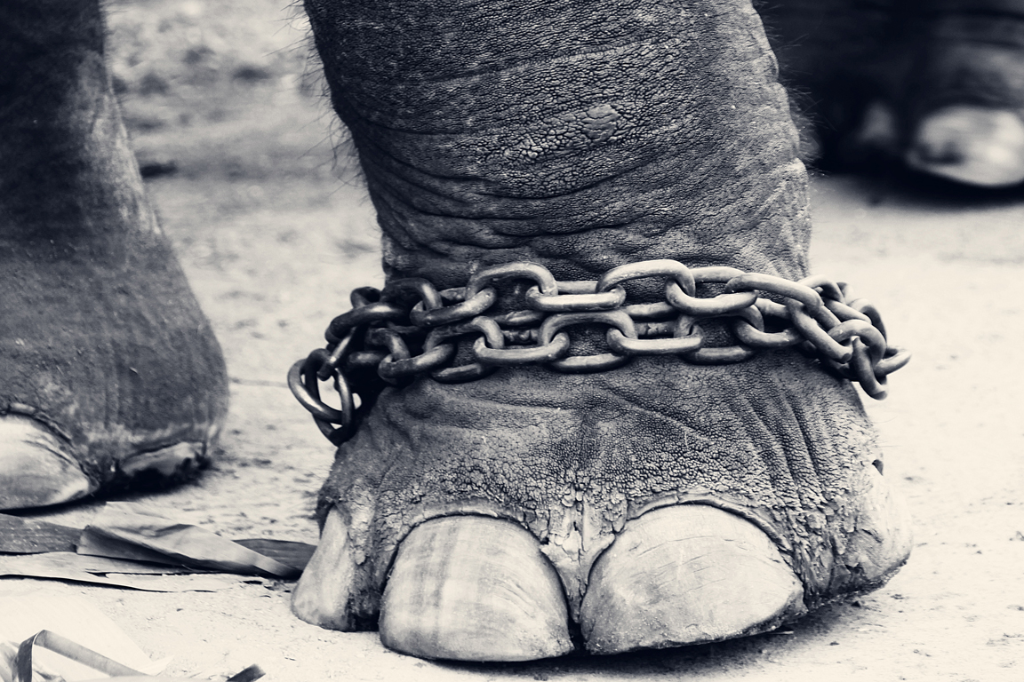 The leg of a chained elephant in captivity Uploaded by Tomer T